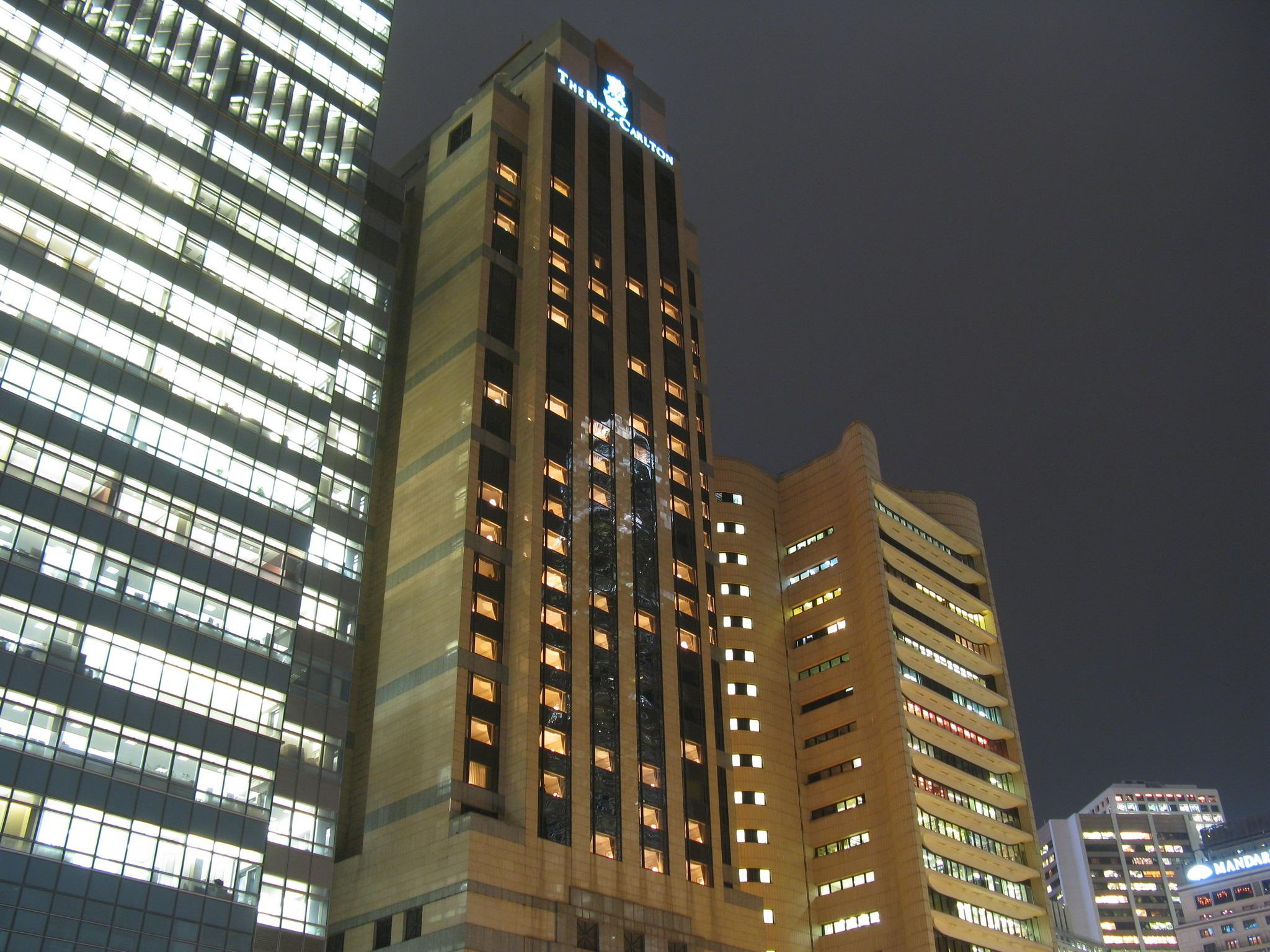 麗嘉酒店夜景 (已拆卸) Night Scene of The Ritz-Carlton, Hong Kong (demolished)